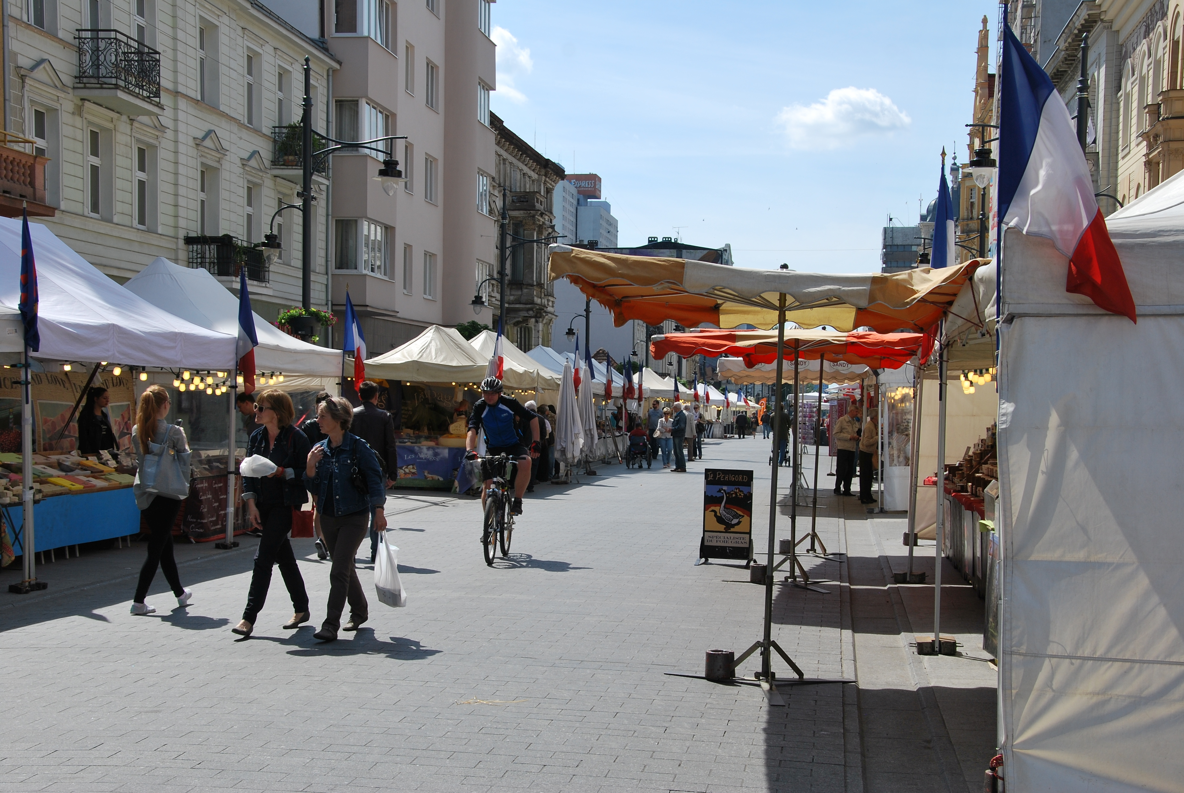 French fair, Łódź Piotrkowska Street May 2015